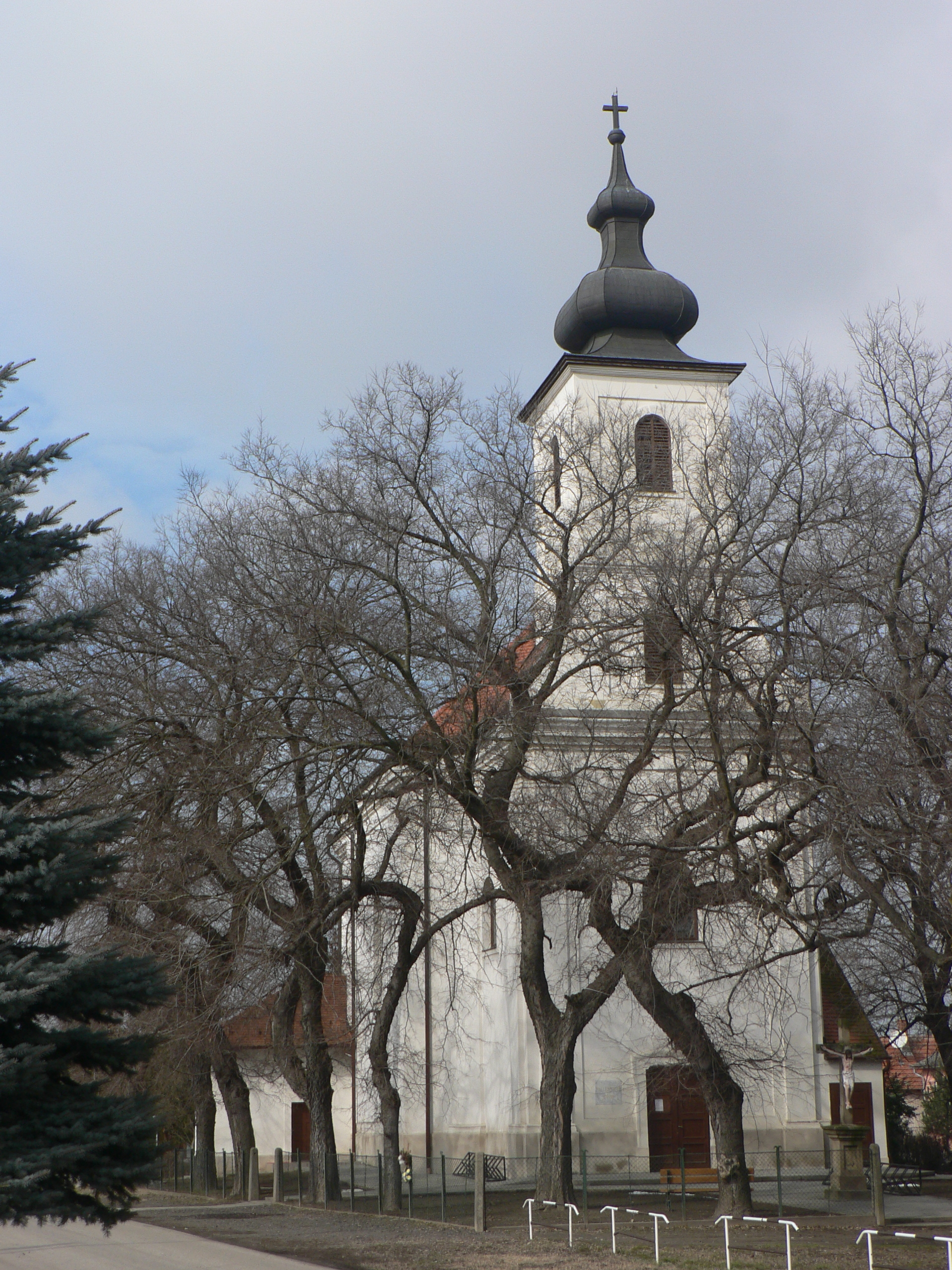 A herédi római katolikus templom This is a photo of a monument in Hungary, Identifier: 5740